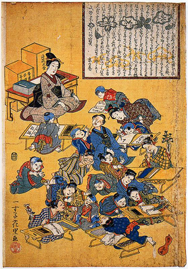 Bungaku Bandai no Takara by Issunnshi Hanasato. Terakoya, private educational school.